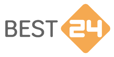 Logo of Best 24